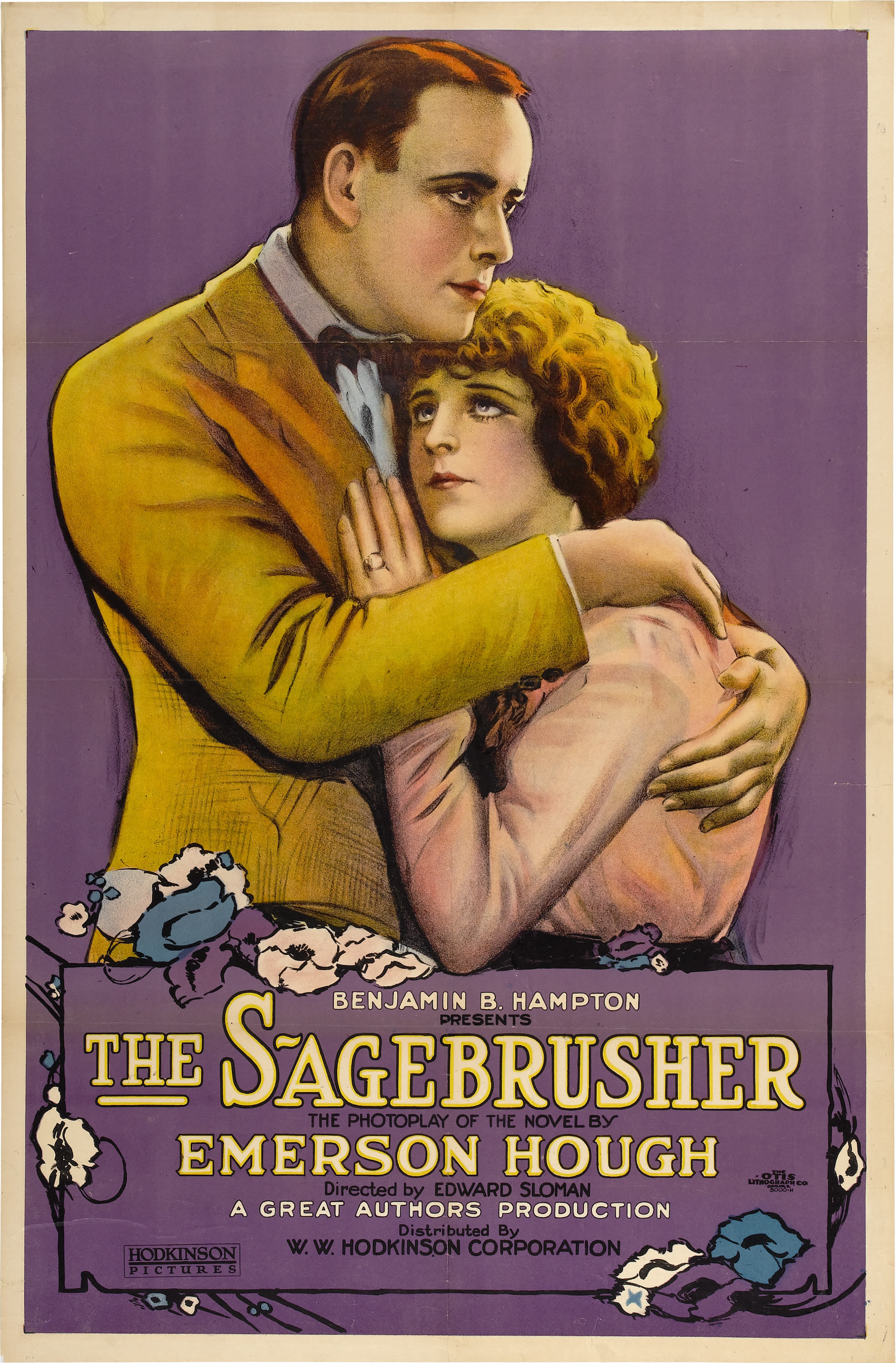 Poster for the American western film The Sagebrusher (1920).